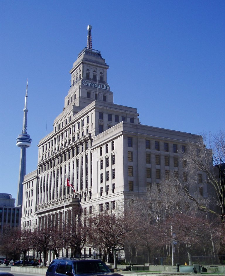 Taken by SimonP in April 2005